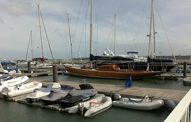 The Bloodhound In Dolphin Marina, Poole. This lovely hardwood yacht was surrounded by modern composite motor yachts (most from the Sunseeker yard just a couple of hundred yards away). According to the guide on the harbour tour ferry back from Brownsea, it once belonged to the royal family and was often sailed by Prince Philip. It has recently been refurbished, and is up for sale.